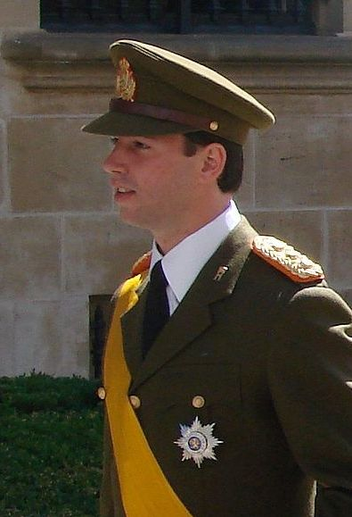 Henri and Maria Teresa, and their son Guillaume